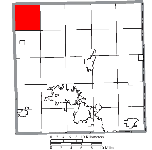 Map of the municipal and township boundaries of Trumbull County, Ohio, United States, as of the 2000 census, with the location of Mesopotamia Township highlighted. Township borders are shown only in unincorporated areas in order to differentiate incorporated and unincorporated areas more clearly.